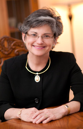 Waded-Cruzado, President of Montana State University, Bozeman, Montana ca 2012